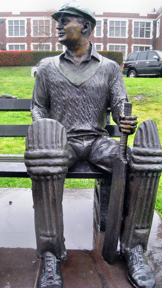 Bill Woodful, sculptor Linda Klarfeld.